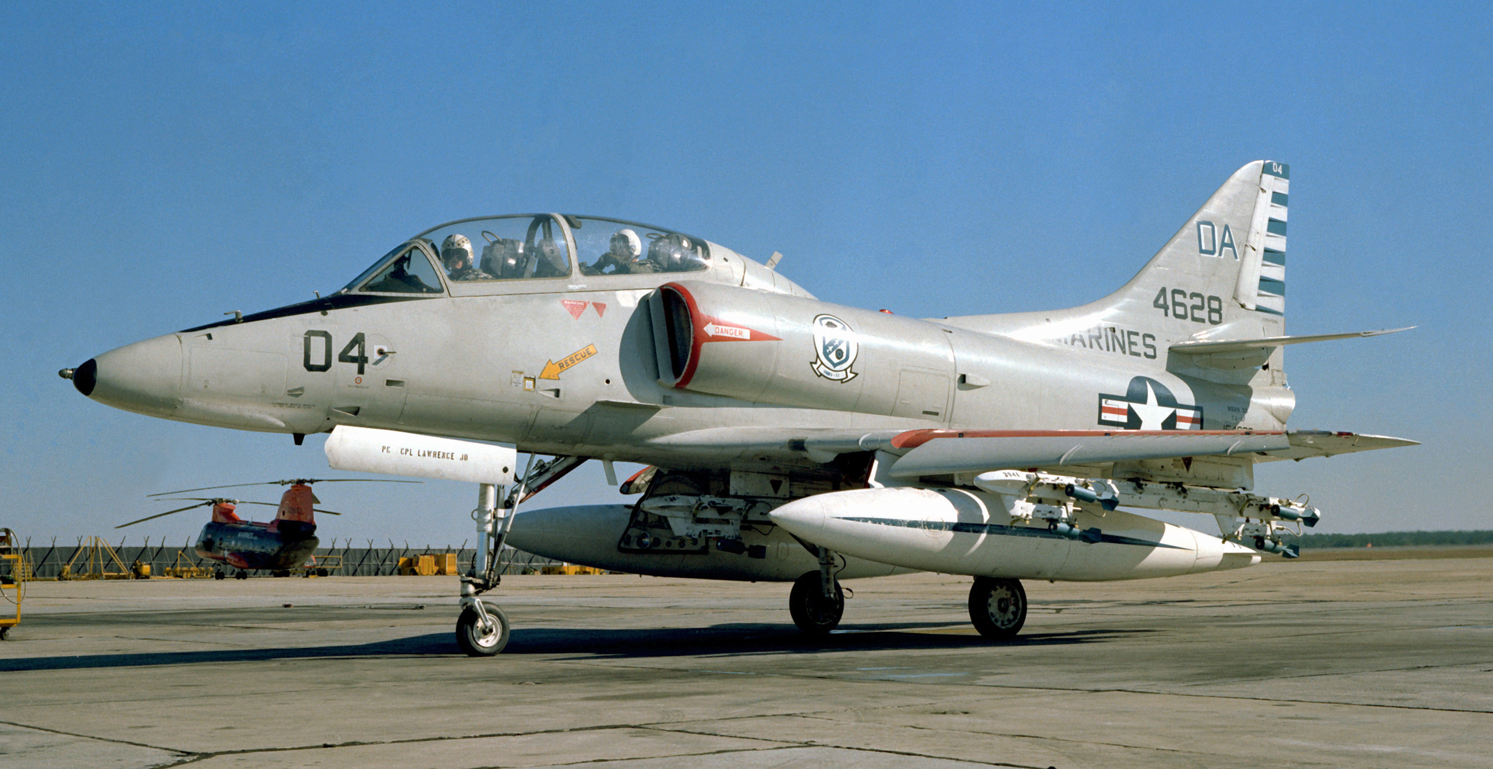 A U.S. Marine Corps Douglas TA-4F Skyhawk (BuNo 154628) from Headquarters and Maintenance Squadron 32 (H&MS-32) preparing to taxi from the flight line at Marine Corps Air Station Cherry Point, North Carolina (USA), on 1 December 1978.